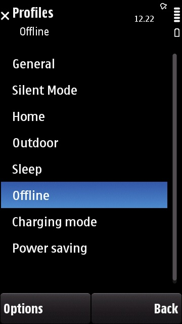 a screenshot of nokia 5800 in offline mode